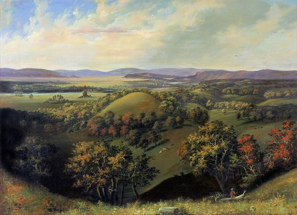 Battlefield at Wisconsin Heights, painting by Samuel Mardsen Brookes (1816-1892)[1]